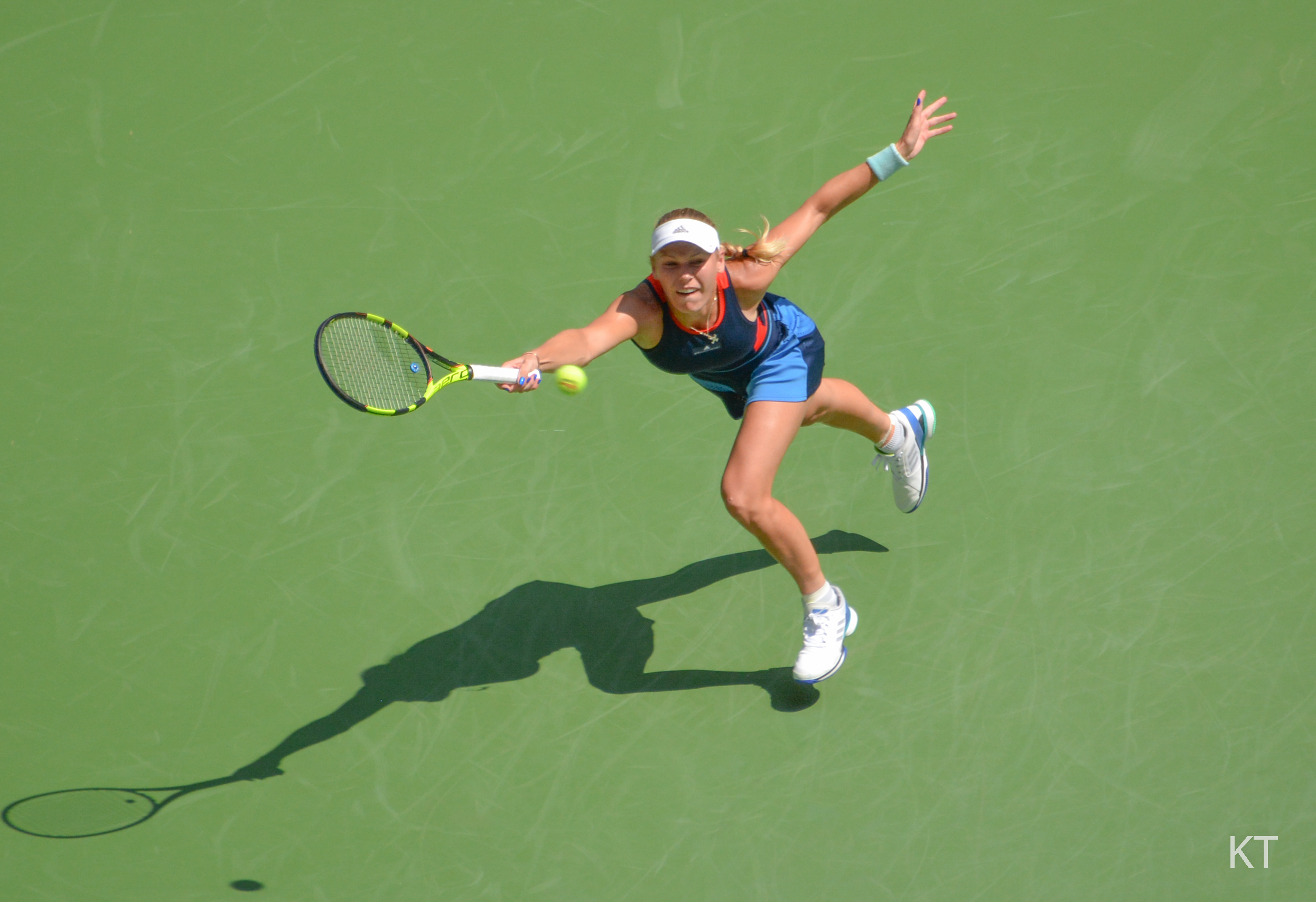 Day 2 of US Open 2018 – Tuesday, 28th August 2018.